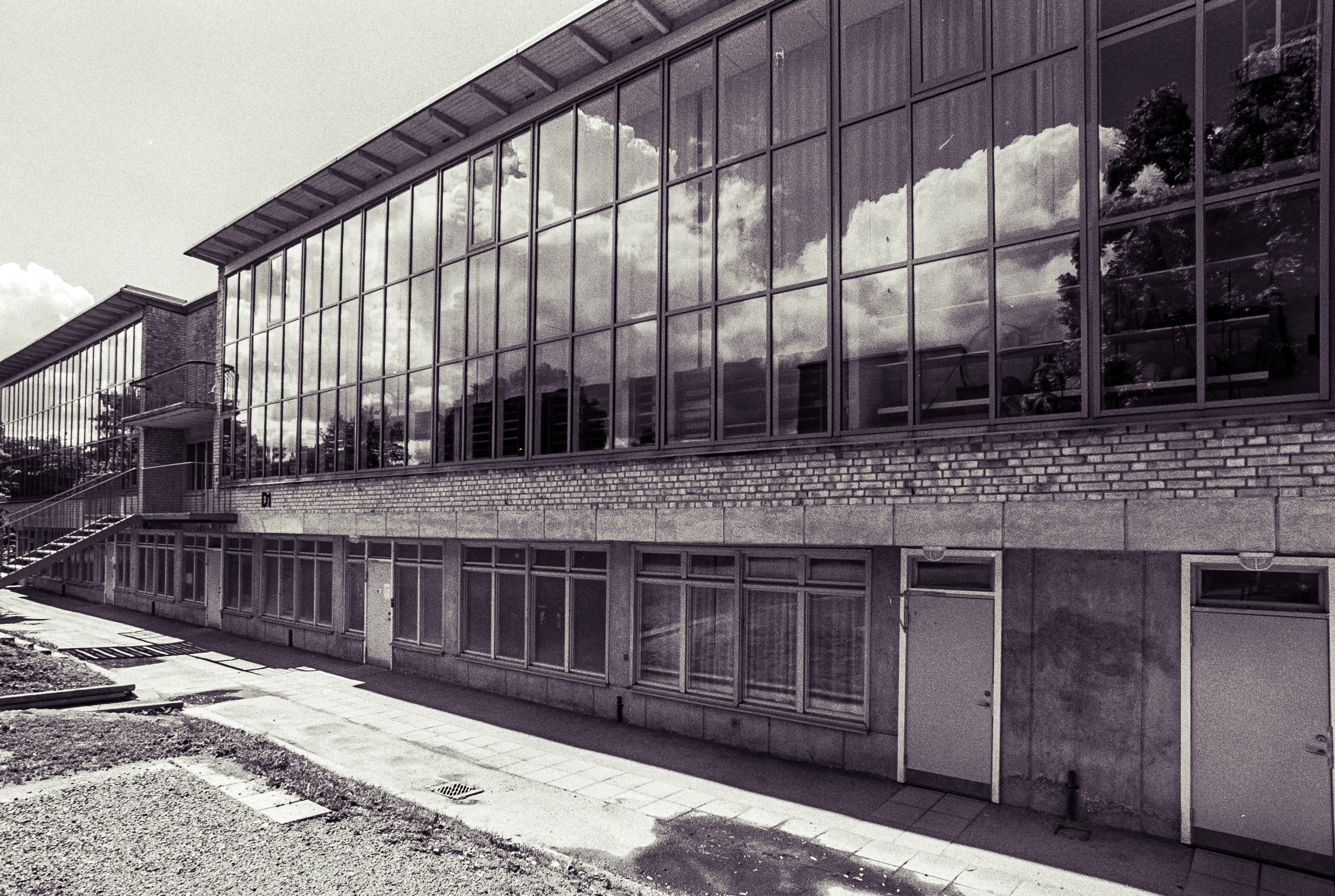 Eriksdalsskolan. Stockholm. School Building. 1938.